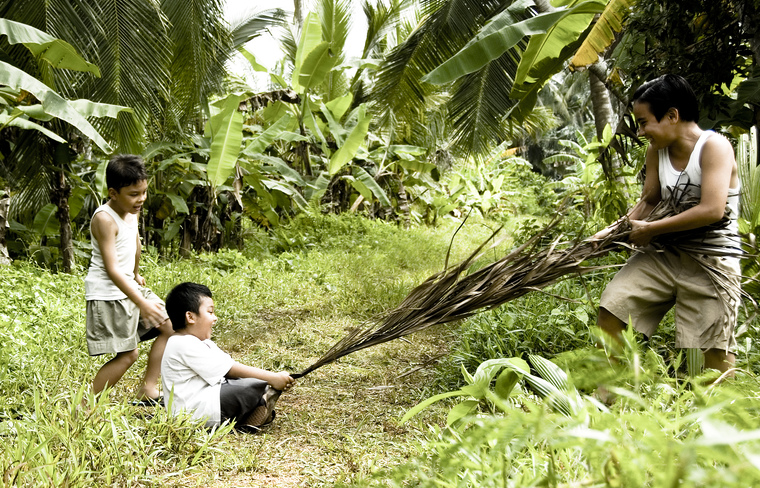 Cropped version of source image, showing a more centered view of the subject (trio of boys playing tarik upih pinang).